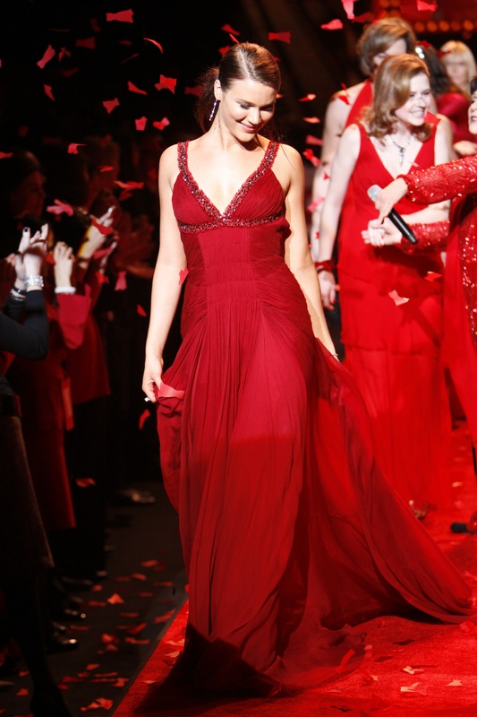 Joss Stone modeling at The Heart Truth Fashion Show 2008